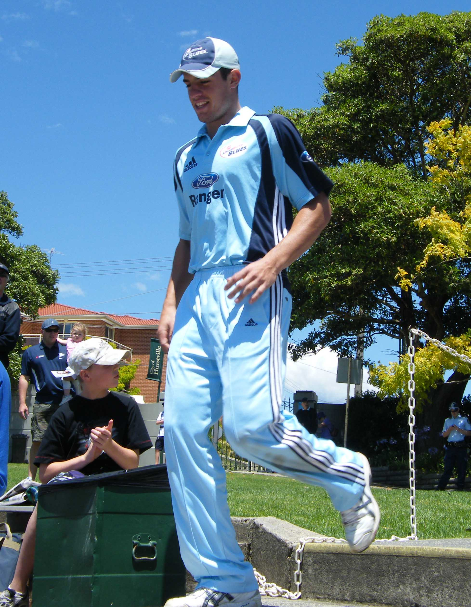 NSW Cricketer Moises Henriques - NSW v Tasmania, Hurstville Oval. Saturday 29 November 2008.